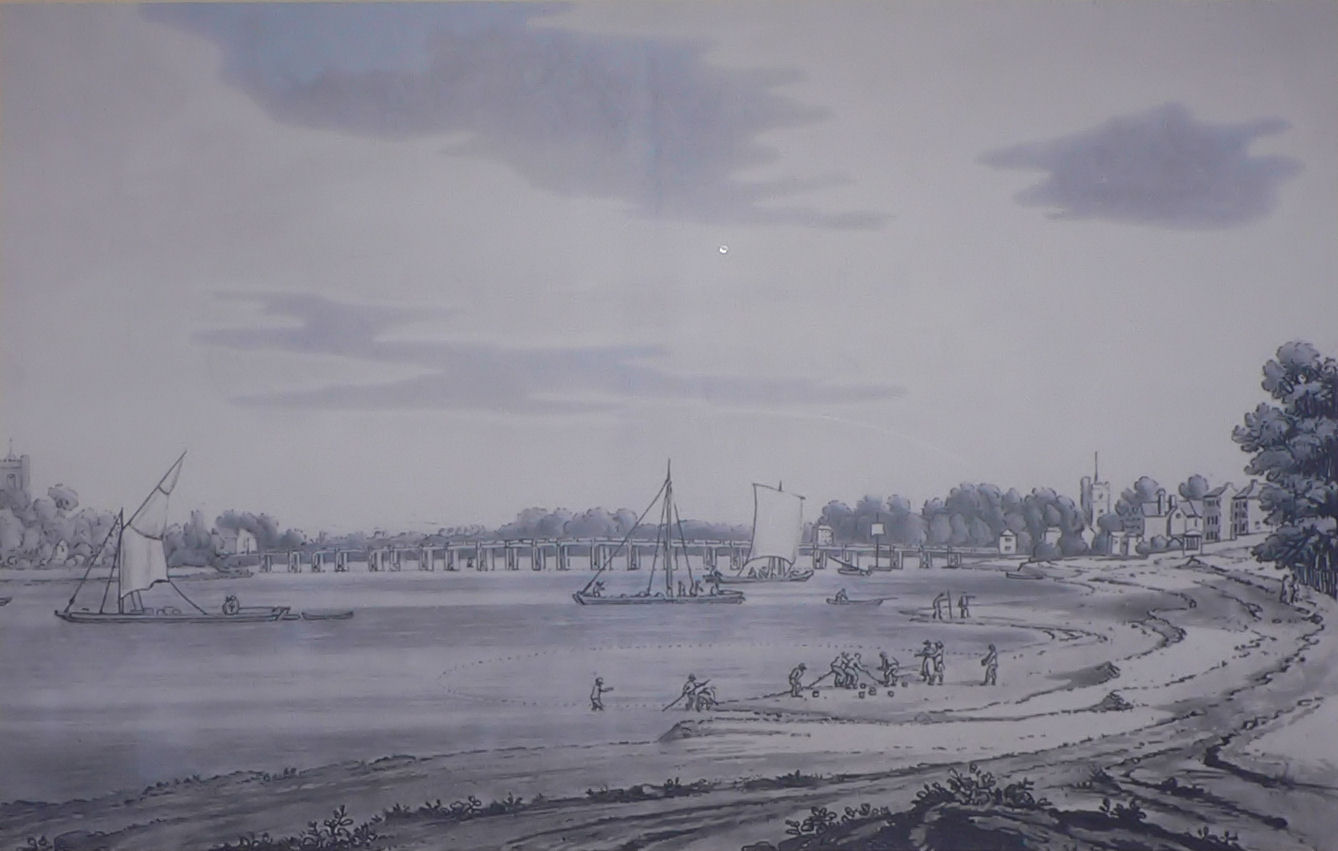 Putney Bridge, 1793, by J. Farington. This view shows a squared-rigged 'West Country' barge, fishermen netting for salmon and erosion of the riverbank.